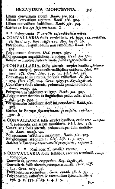 Description of Convallaria. Page 314 of Caroli Linnaei ... Species plantarum :exhibentes plantas rite cognitas, ad genera relatas, cum differentiis specificis, nominibus trivialibus, synonymis selectis, locis natalibus, secundum systema sexuale digestas... Holmiae : Impensis Laurentii Salvii, 1753.